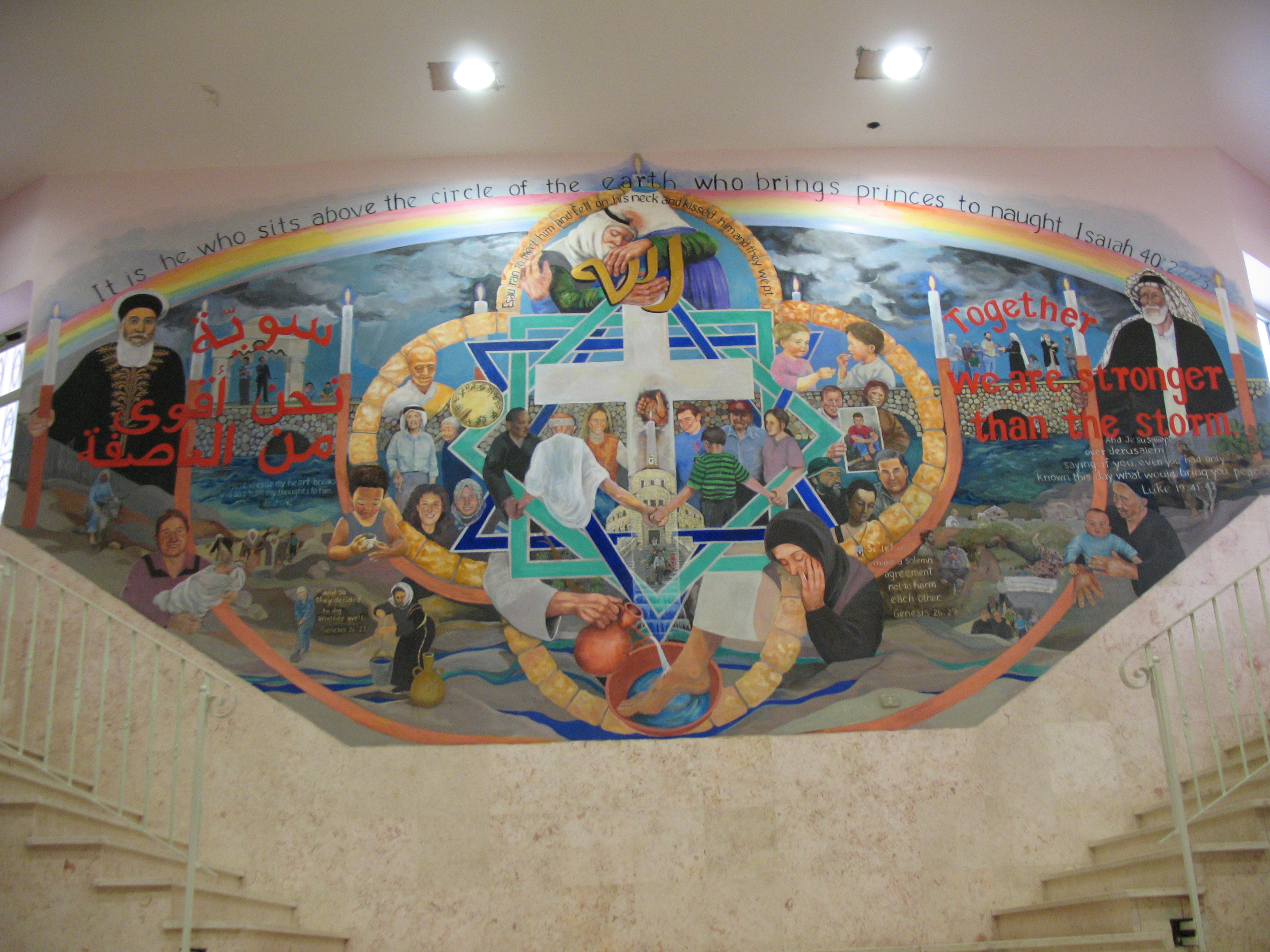 Artist: Dianne Roe, USA Church is located on the campus of Mar Elias Educational Institutions. The MEEI includes an elementary school, a high school, a college of technology, a regional teachers' center, and a university (currently associated with University of Indiana, but working towards independence). I'billin